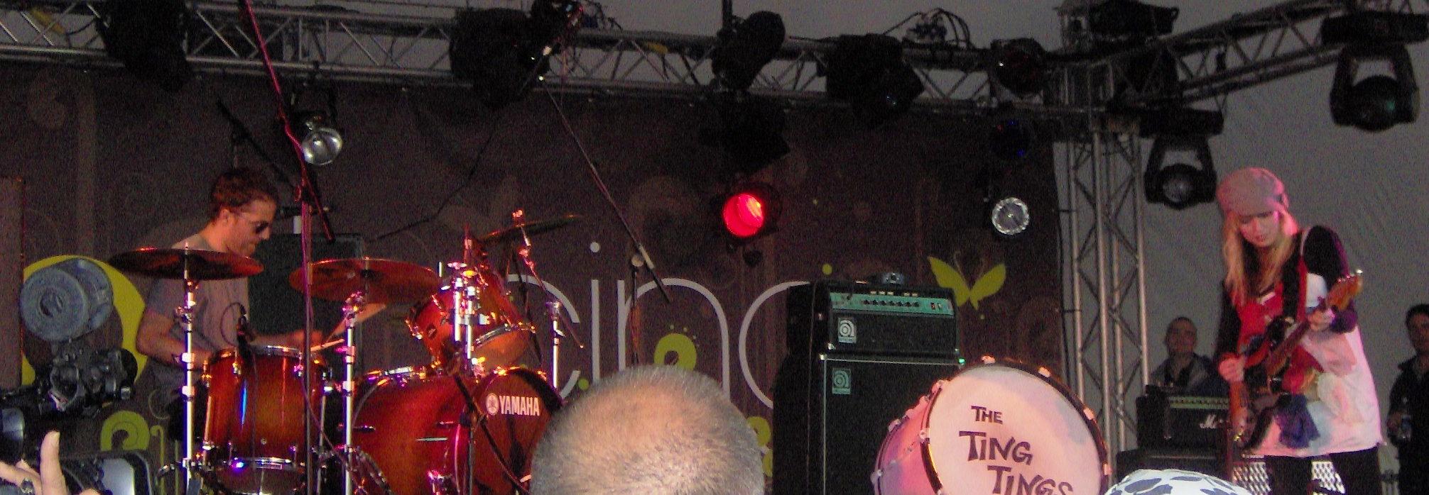 The Ting Tings playing at Glastonbury Festival, June 2007